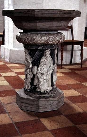 Maribo Cathedral